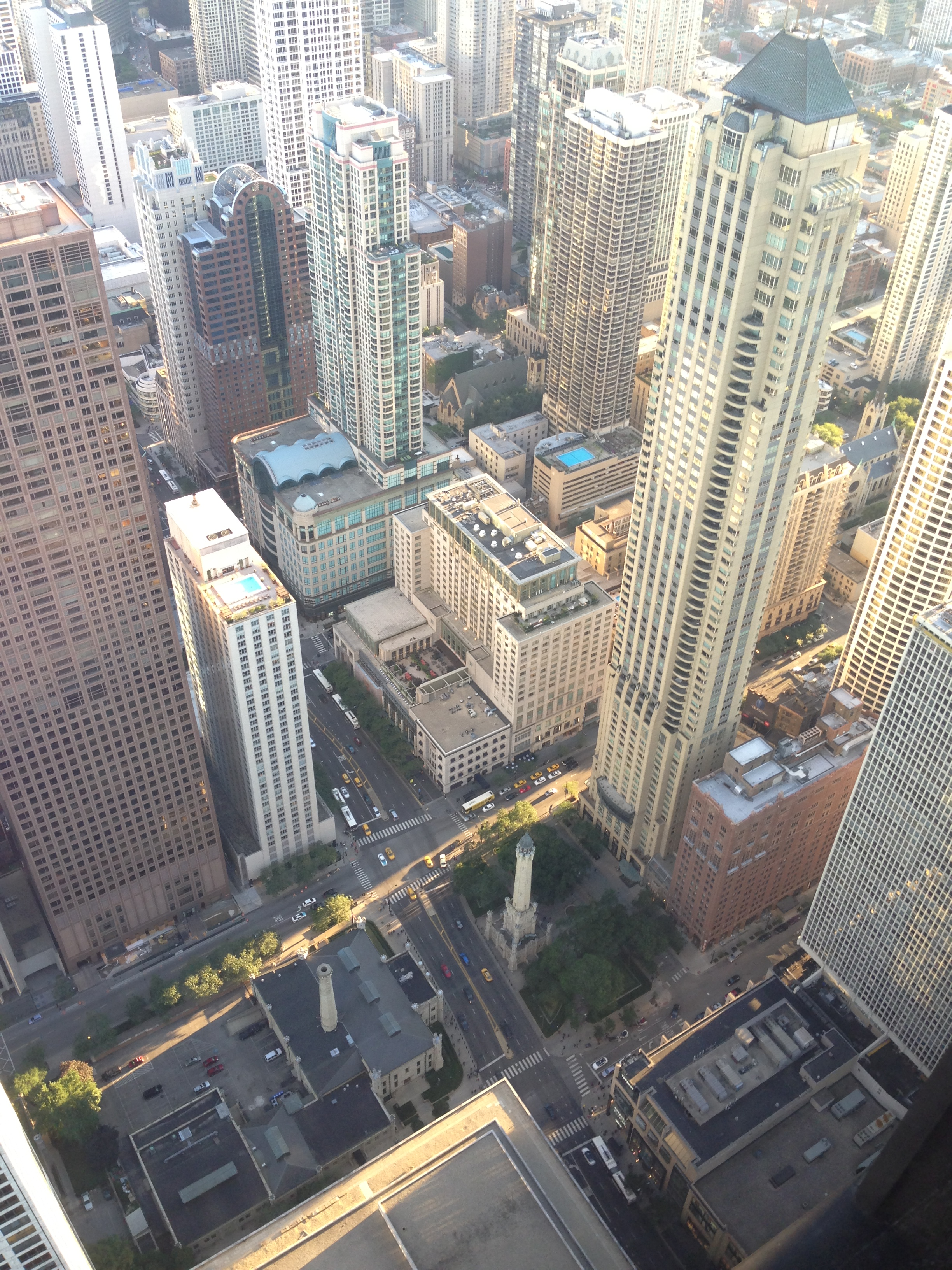 Chicago Water Tower as seen from the John Hancock tower Signature room